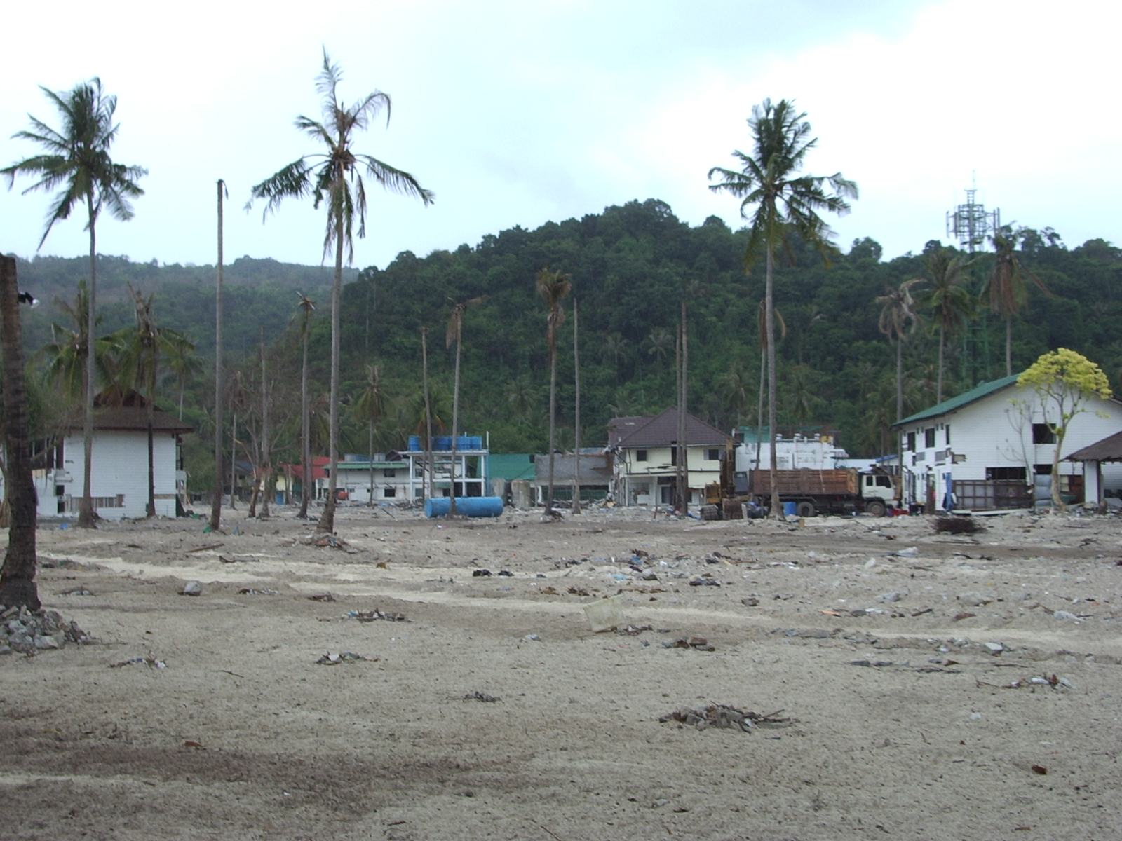 Phi Phi Don in Mar 05